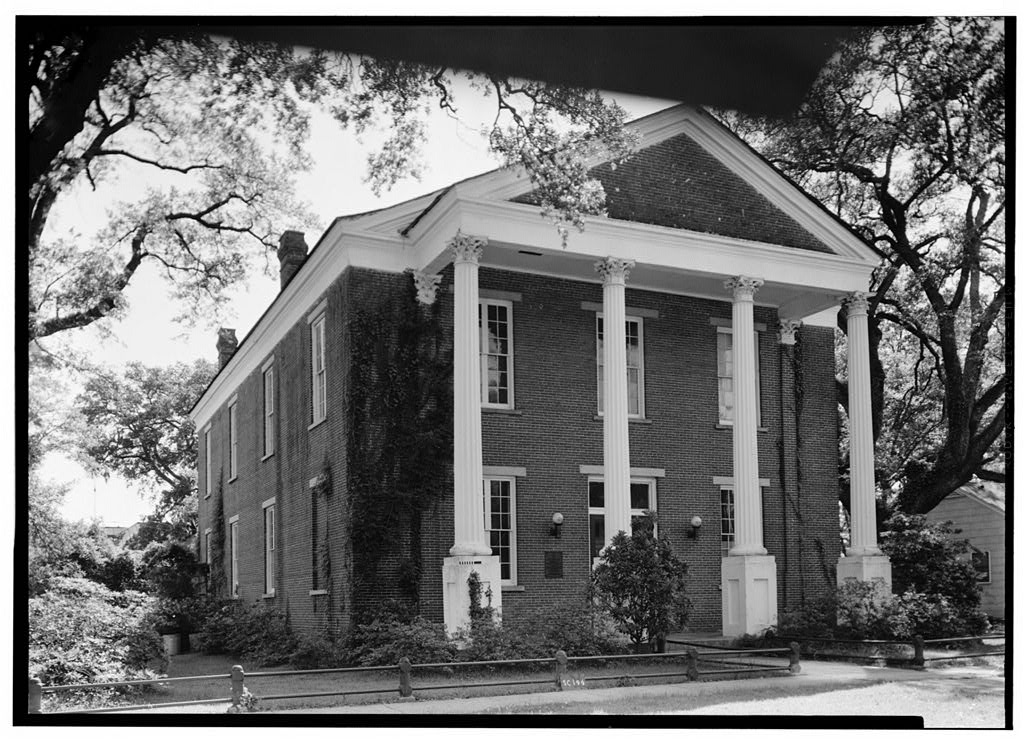 View of the north (front) elevation from the northeast of the Winyah Indigo Society Hall — at Prince & Cannon Streets, in Georgetown, in Georgetown County, South Carolina. 1958 image: HABS—Historic American Buildings Survey of South Carolina.